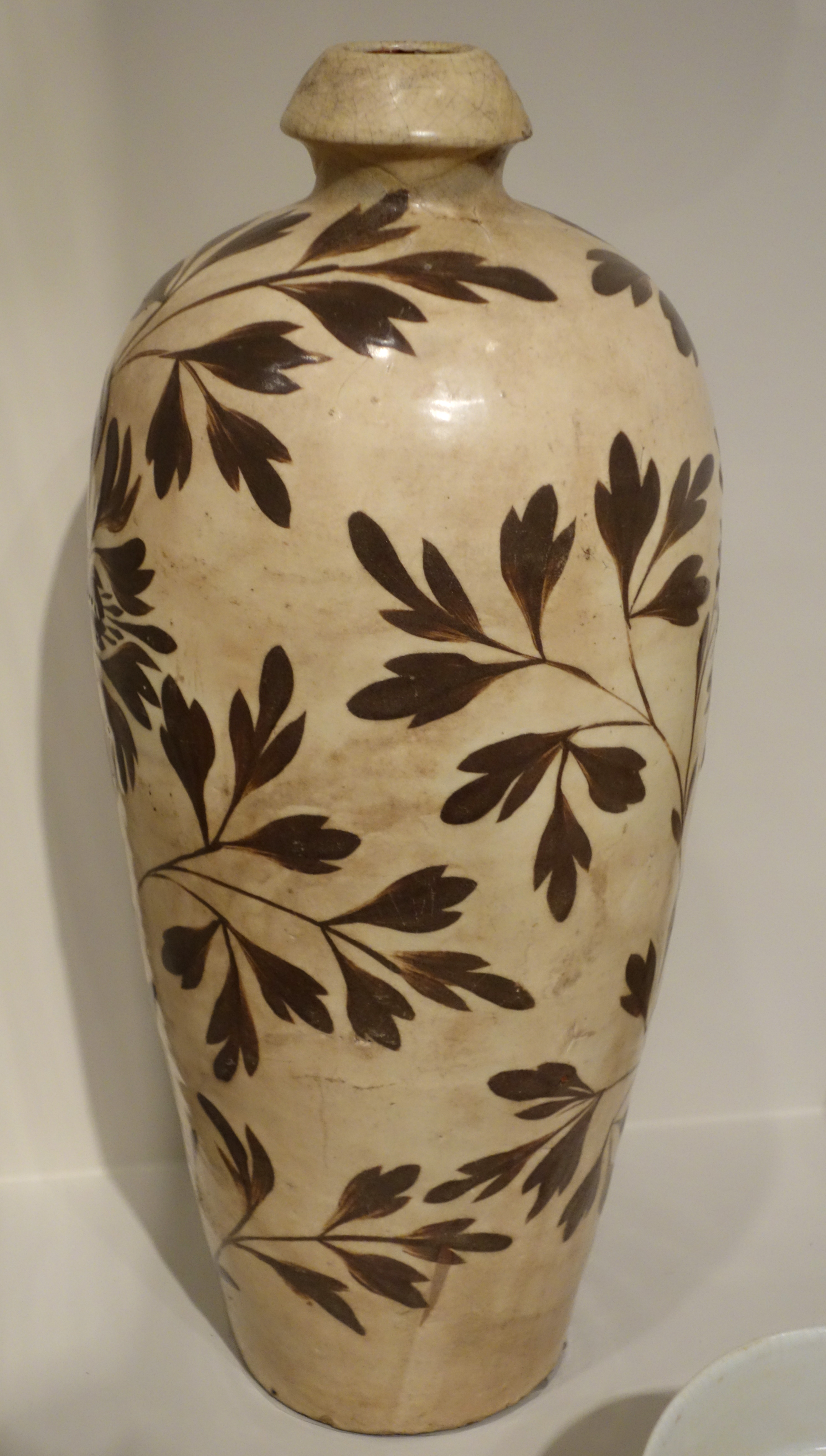 Exhibit in the Cincinnati Art Museum, Cincinnati, Ohio, USA. This artwork is in the public domain because the artist died more than 70 years ago.